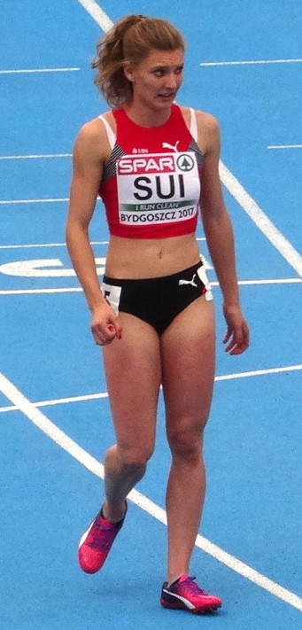 2017 European Athletics U23 Championships, 4x100m relay women final